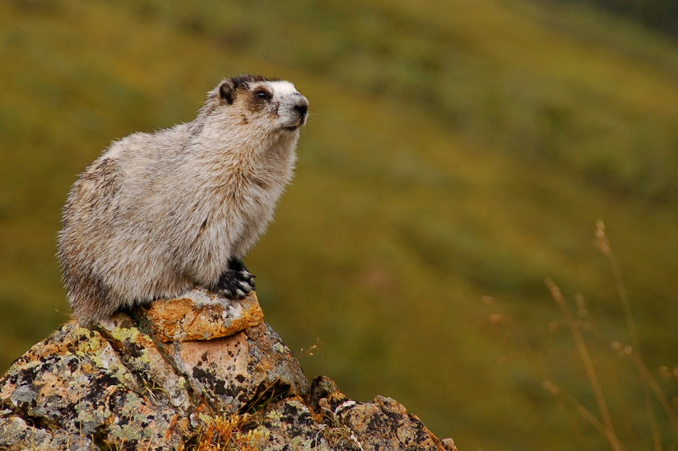 Hoary marmot (Denali National Park and Preserve)